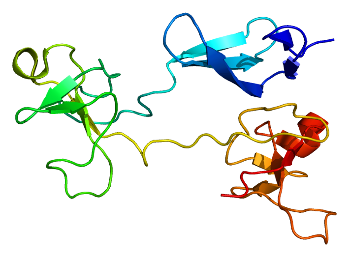 Structure of the FN1 protein. Based on PyMOL rendering of PDB 1e88.